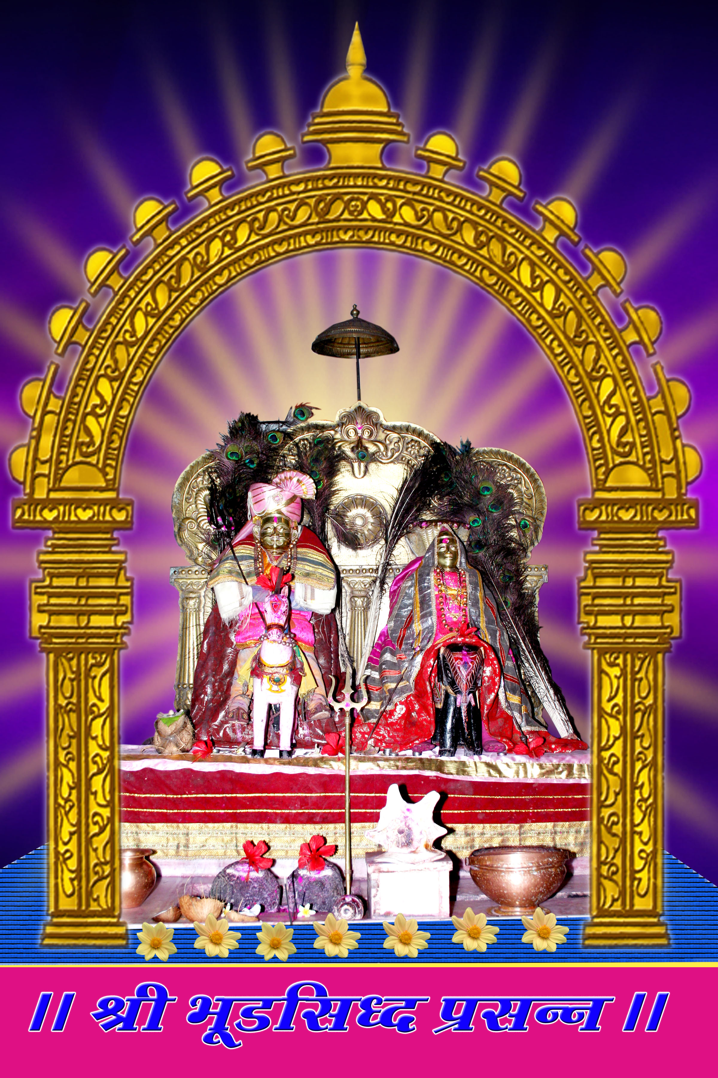 Lord Bhoodsuddhnatha